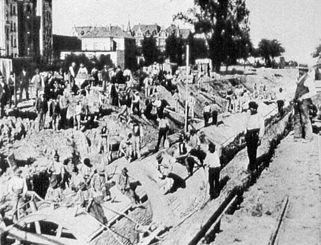 Bielefeld, Germany: canalisation of Lutter Brook at the beginning of 20th century.